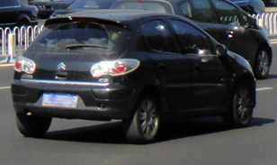 Dongfeng Citroën C2, a China only version based on the Peugeot 206, seen in Beijing 2011.